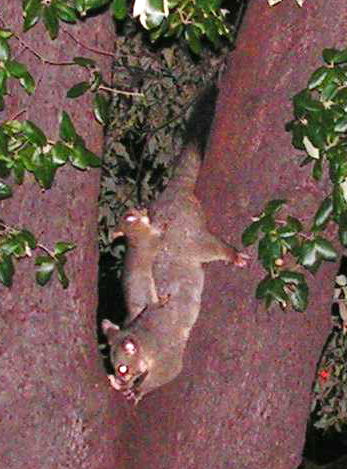 Common Brushtail Possum female and young (Trichosurus vulpecula), Victoria Park, Sydney, New South Wales, Australia